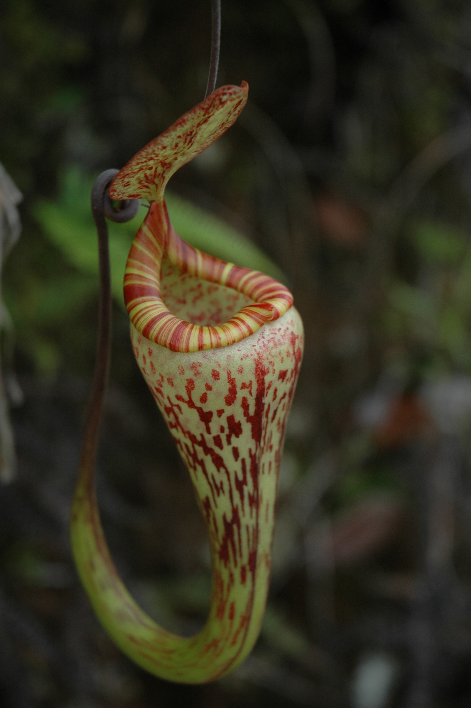 Nepenthes vogelii Kelabit Highlands Sarawak by Jeremiah Harris